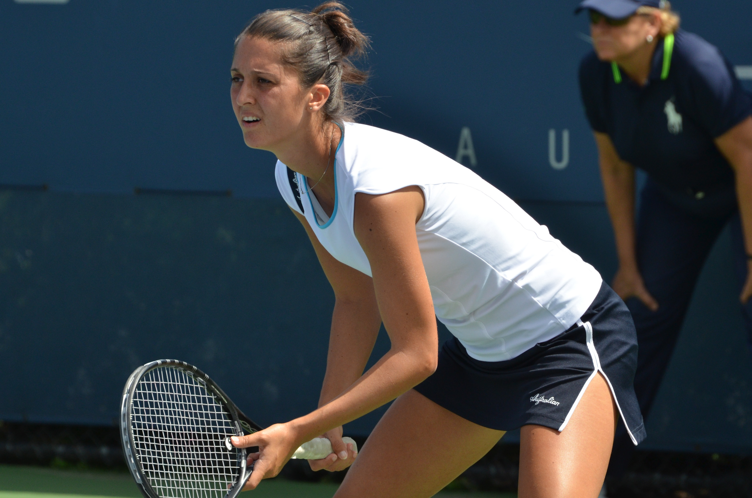 Giulia Gatto-Monticone at the 2011 US Open Qualifying tournament.